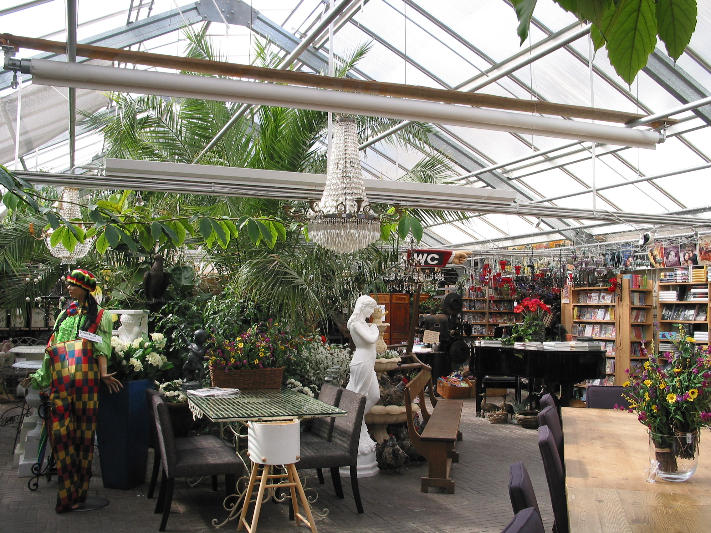 "Greenhouse effect" shop in an old greenhouse